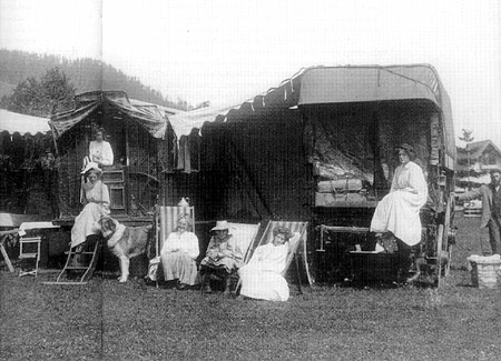 Yenish people probably East-Switzerland.